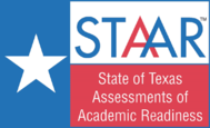 The official logo of the State of Texas Assessments of Academic Readiness. Used in the STAAR test.